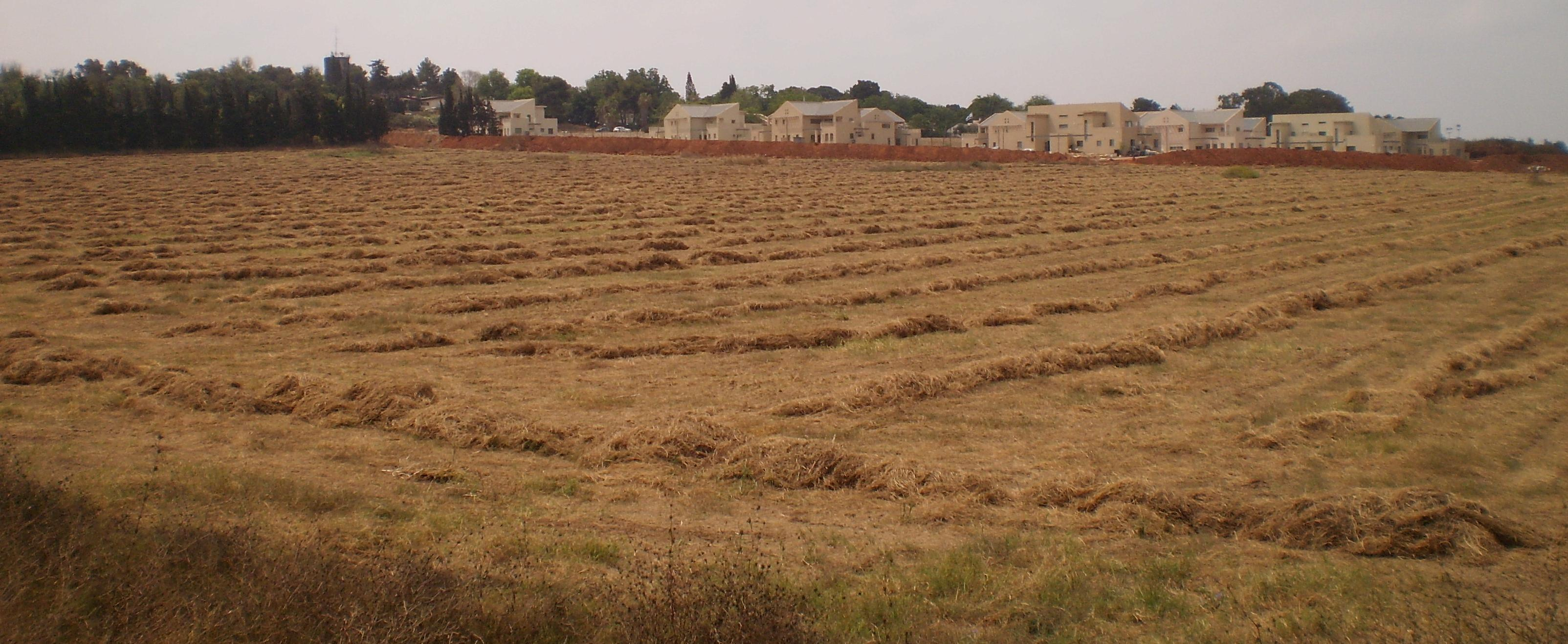 Glil-Yam, seen from north-west